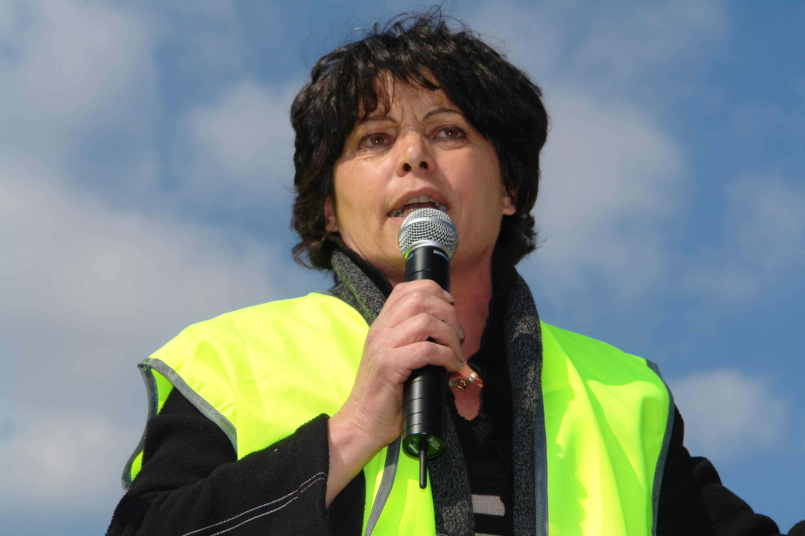 Michèle Rivasi, in Lyon, during a demonstration against the European Pressurized Reactor, on March 17, 2007.